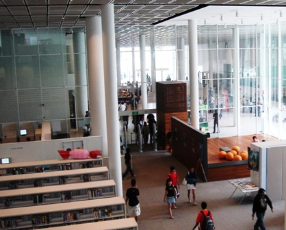 Republic Polytechnic Library South, Singapore